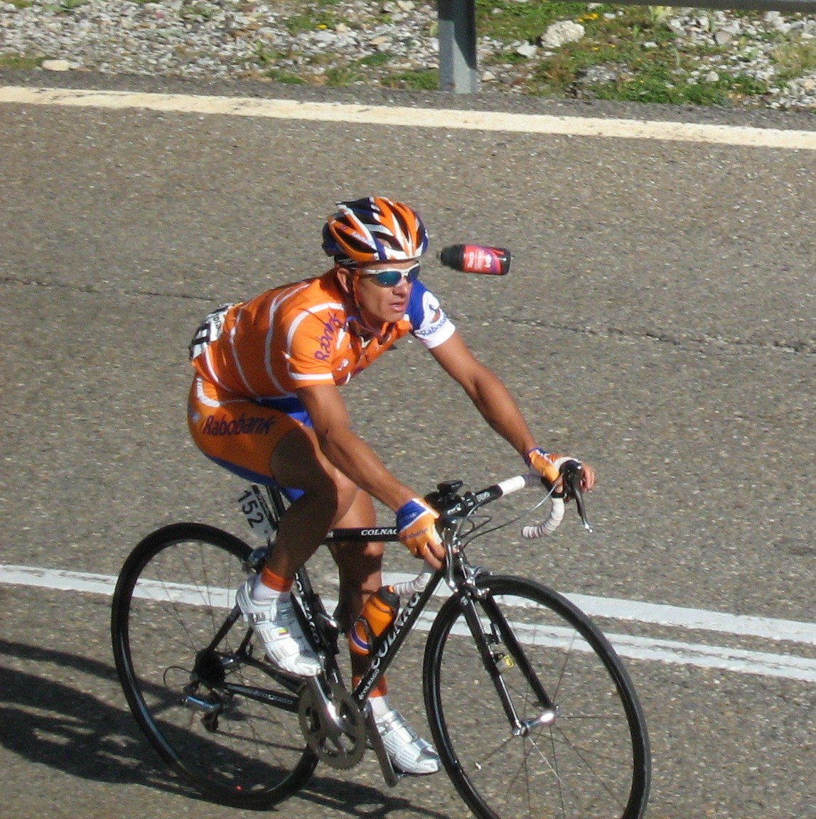 Mauricio Ardila, 2008 Vuelta a España, 8th stage, Port de la Bonaigua, Spain.